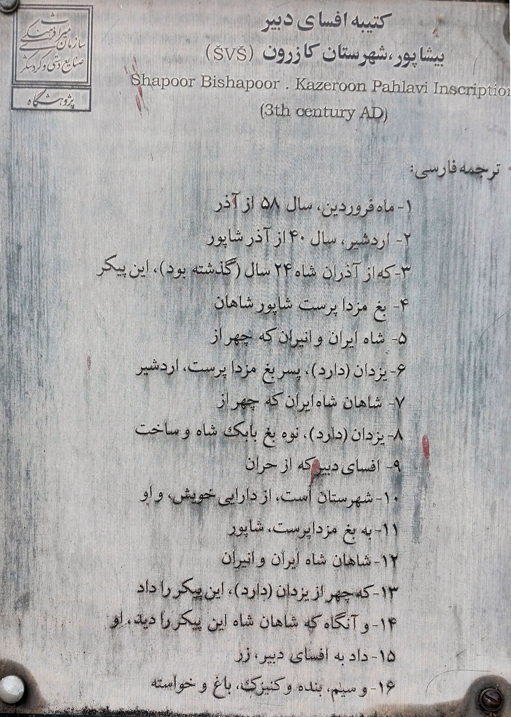 taken in inscription garden, Tehran